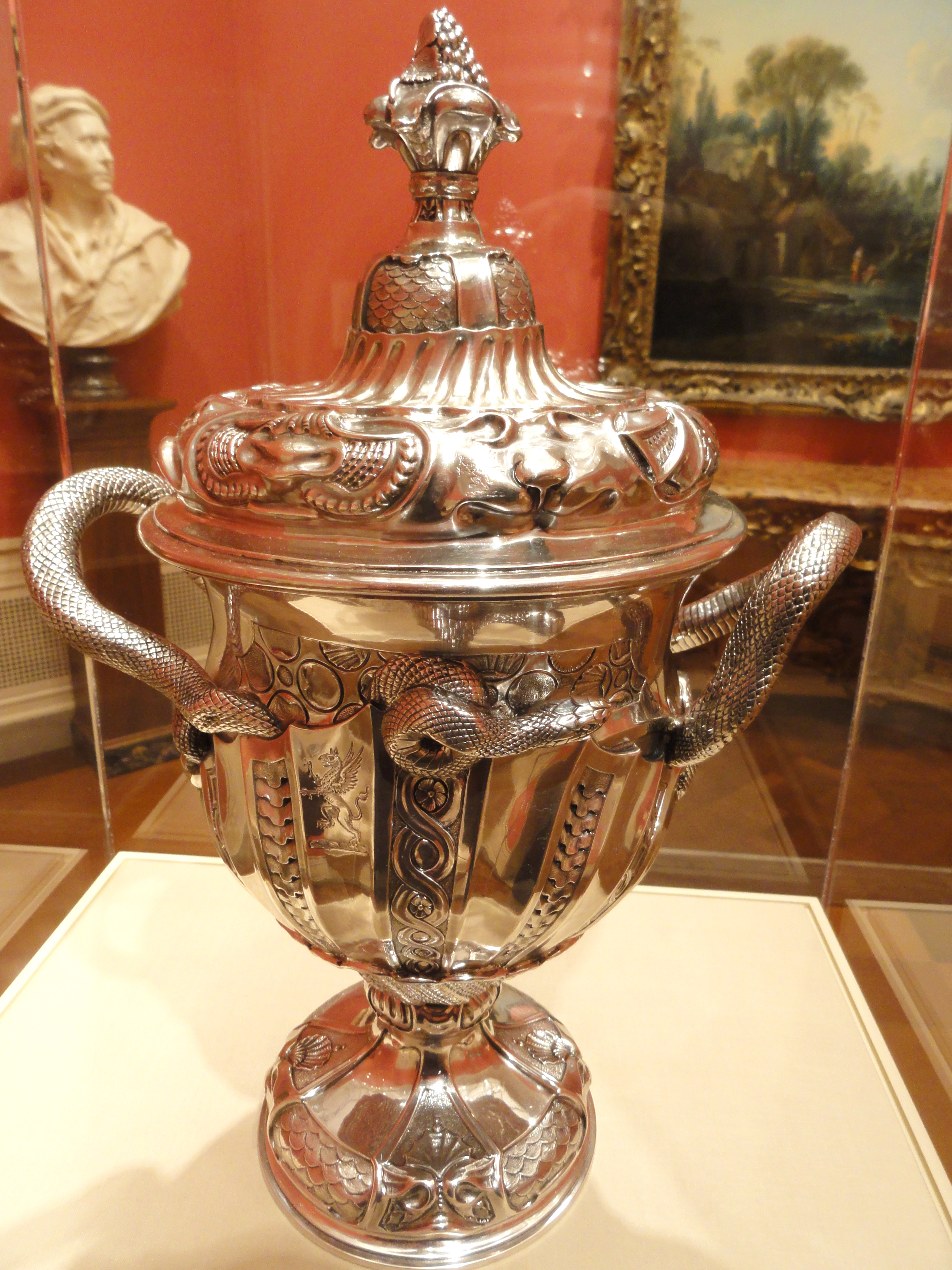 Exhibit in the Nelson-Atkins Museum of Art, Kansas City, Missouri, USA. This item is old enough so that it is in the public domain. ; I took this photograph and release it into the public domain.